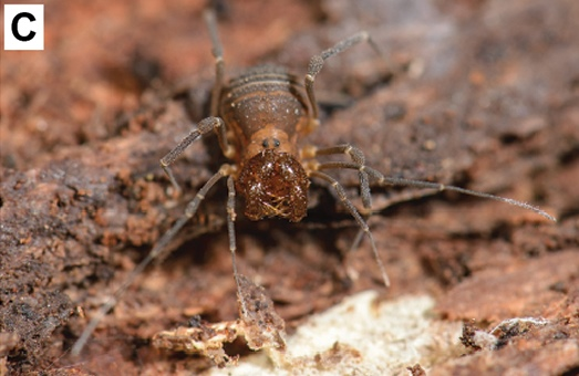 Travunioid harvestmen, Cryptomaster leviathan